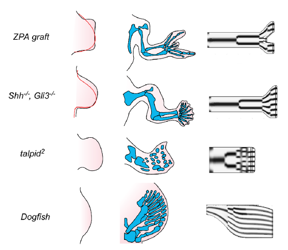 (Simulations of effect of limb bud distal expansion. ZPA graft (left) expanded chicken wing bud that results from anterior graft of an ectopic zone of polarizing activity from the proximal posterior region of another wing bud (normal limb profile at this stage shown in red); (center) resulting cartilage skeleton, with mirror-image duplication; (right) end-stage of simulation with distal expansion corresponding to that shown on left. Shh2/2, Gli32/2 (left) expanded mouse forelimb bud in embryos null for both Shh and Gli3 (normal limb profile at this stage shown in red); (center) resulting skeleton, with supernumerary digits [61]; (right) end-stage of simulation with distal expansion corresponding to that shown on left. talpid2 (left) expanded wing bud of chicken embryo homozygous for talpid2 mutation; (center) cartilage skeleton formed from such a limb bud later during development; (right) end-stage of simulation with distal expansion corresponding to that shown on left. Dogfish (left) shape of the pectoral fin-bud in an embryo of the dogfish Scyliorhinus torazame; (center) cartilaginous fin skeleton formed from such a limb bud [5]; (right) end-stage of simulation using a limb bud contour like that shown on left. In each of these simulations reaction parameter values different from the standard ones were used